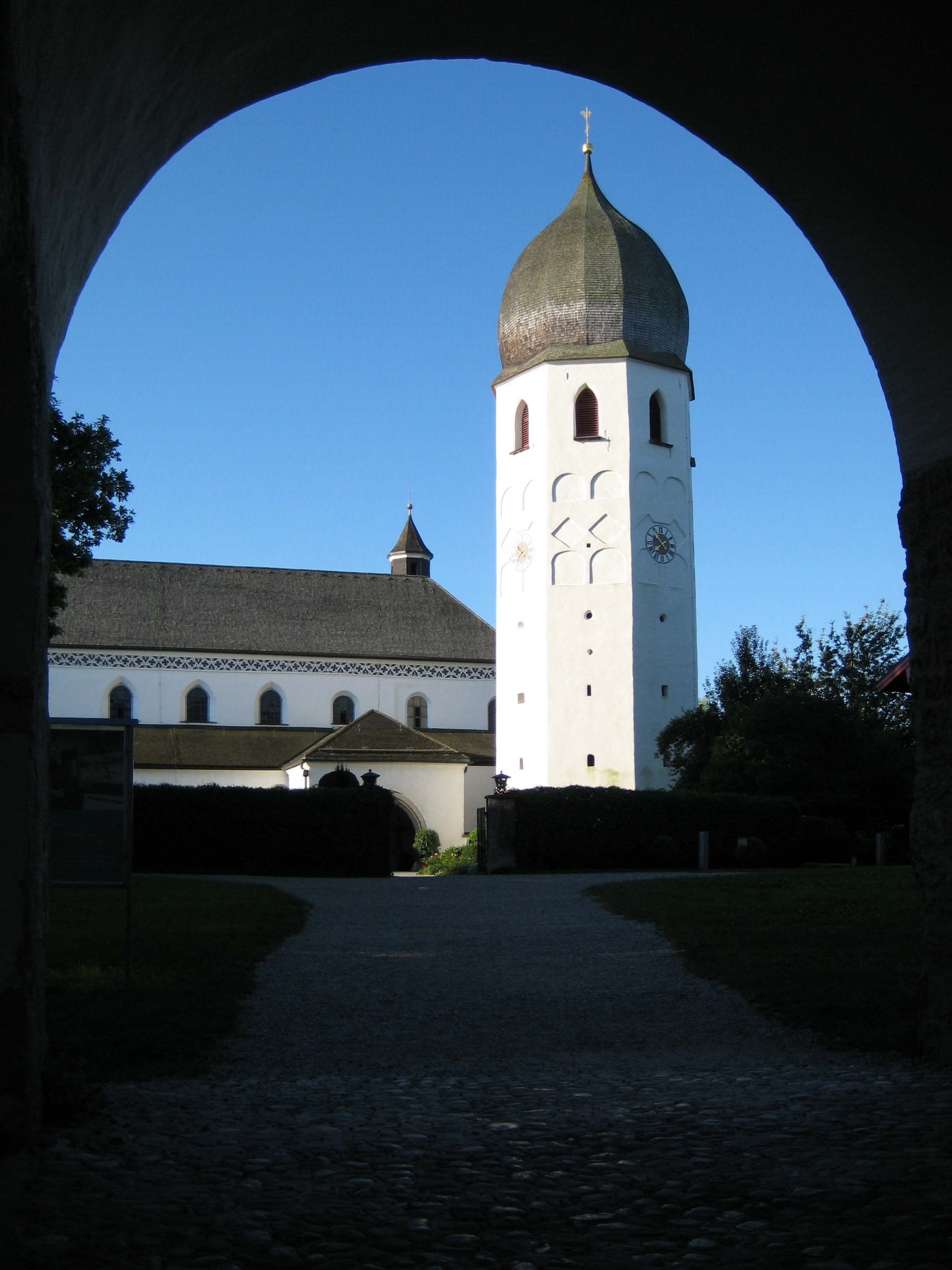 Chiemsee, Fraueninsel